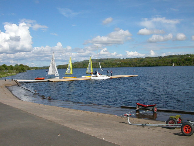 Castle Semple Loch, Lochwinnoch. View from Lochwinnoch watersports centre over loch.